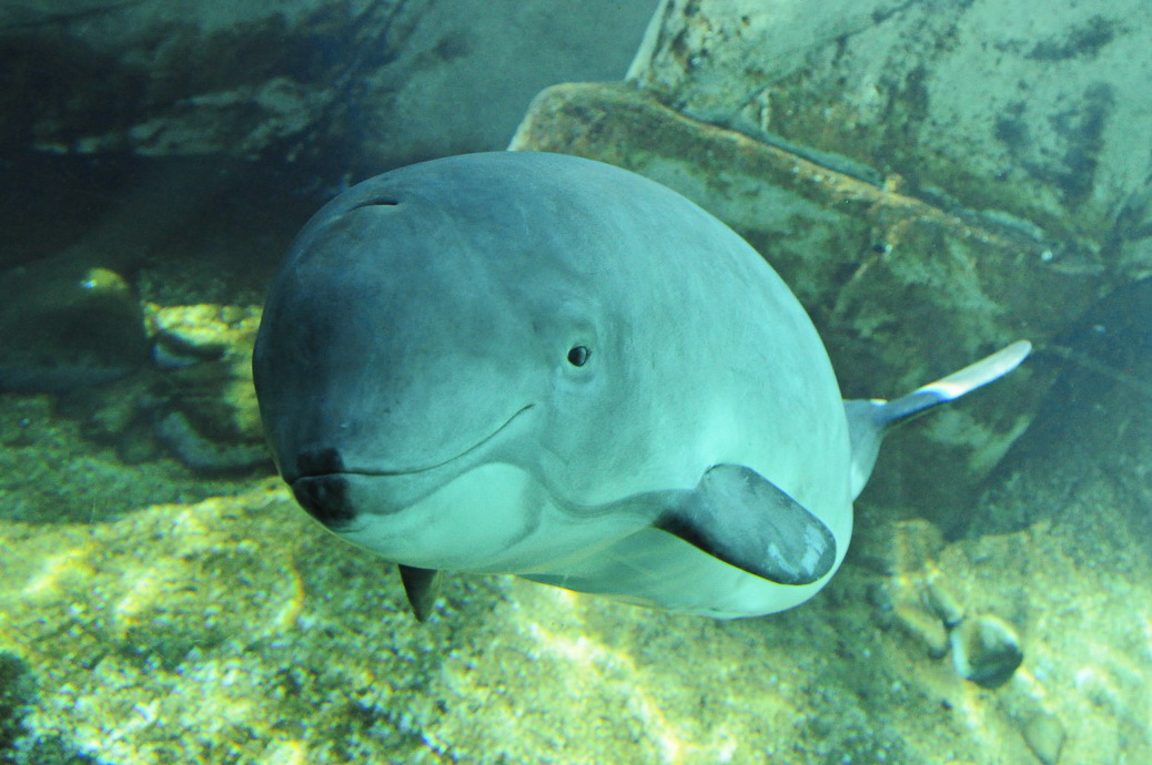 Jack is a harbour porpoise (phocoena phocoena) at the Vancouver Aquarium. He was found beached near Horseshoe Bay, West Vancouver, transported to the Vancouver Aquarium Marine Mammal Rescue Centre and deemed non-releasable by Fisheries and Oceans Canada following rehabilitation.